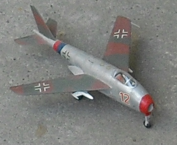 Model photo Messerschmitt Me P.1101 The markings and X-4 rockets are fantasy